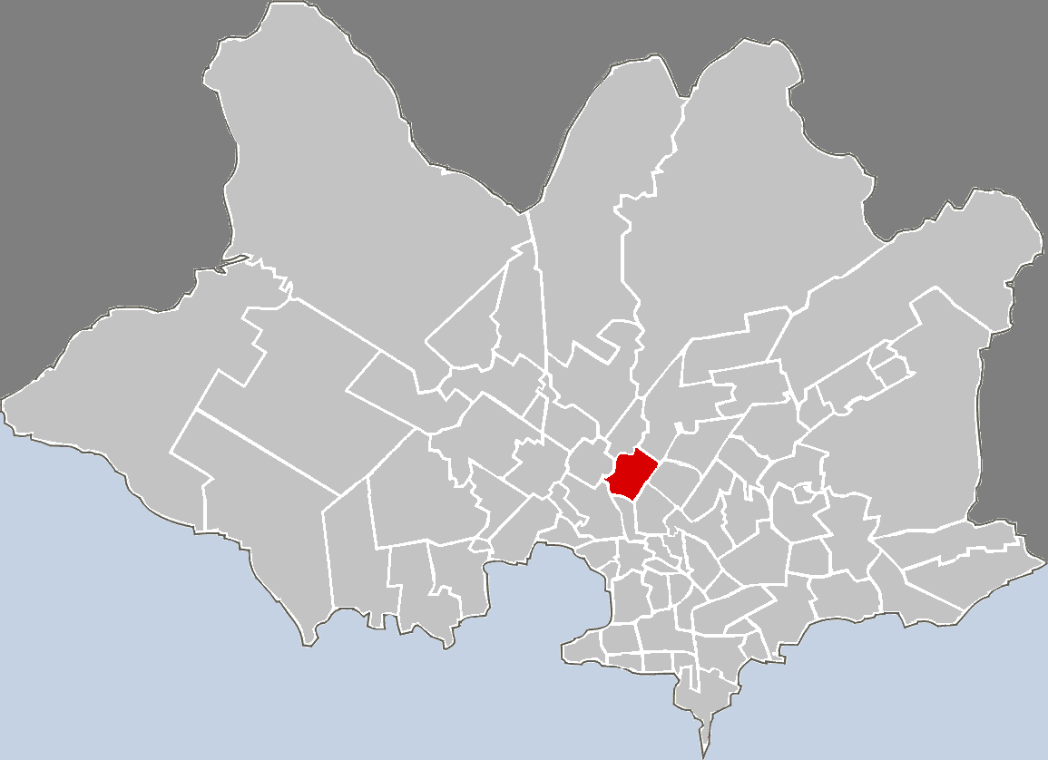 Barrios of Montevideo